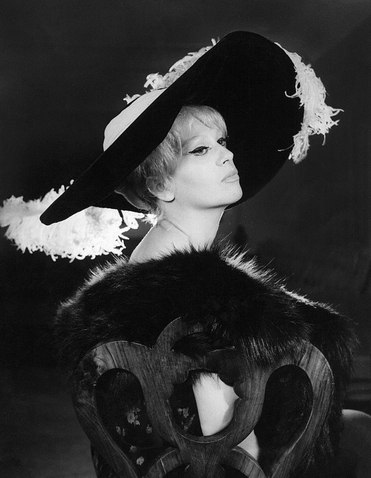 The Italian actress Franca Rame wearing stage clothes during the TV show 'Canzonissima'. Italy, 1962